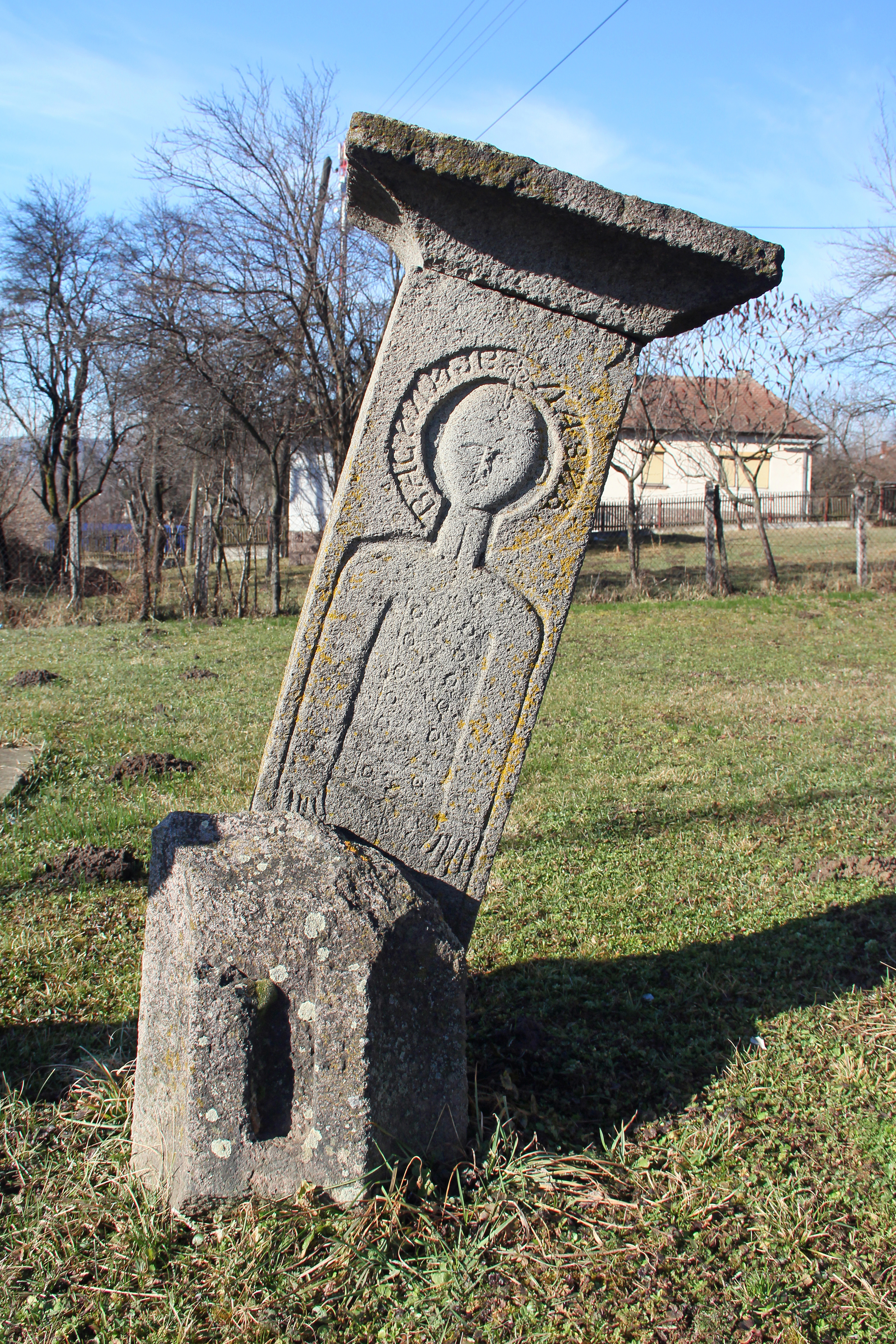 Roadside tombstone erected in memory of a soldier Vasilije Lazic. It is located at the entrance to Gornji Milanovac (the former area of village Nevade), nearby the factory "Metalac".